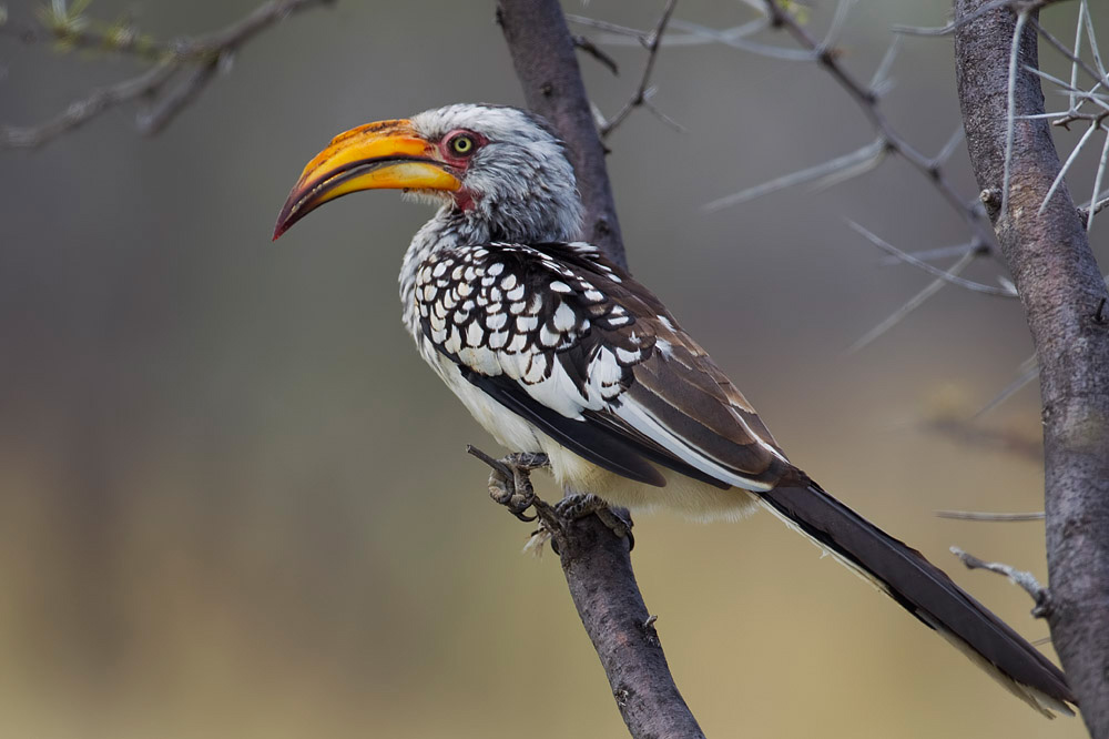 Southern Yellow-billed Hornbill